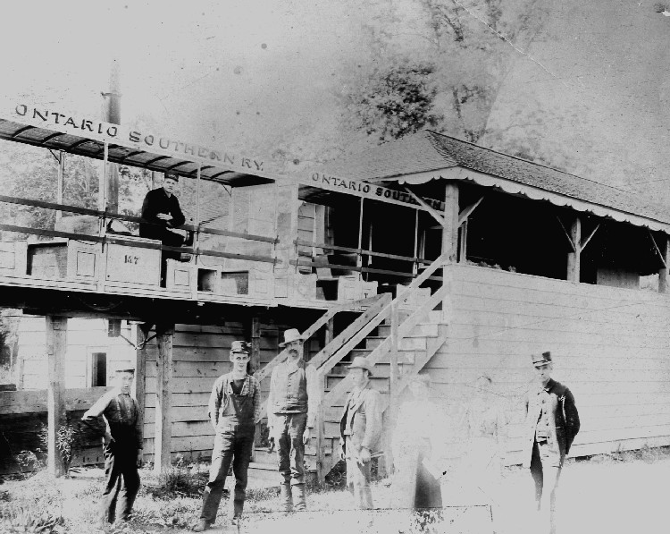 The Ontario Southern Railway (colloquially known as the "Peg Leg") which carried passengers between the steam railway station at Ridgeway, Ontario and the amusement park at Crystal Beach, Ontario.